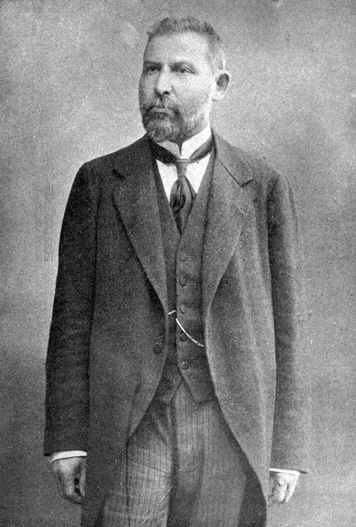 Abdullah Cevdet